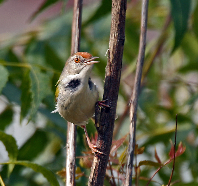 Common Tailorbird Orthotomus sutorius at Hodal in Faridabad, District of Haryana, India.